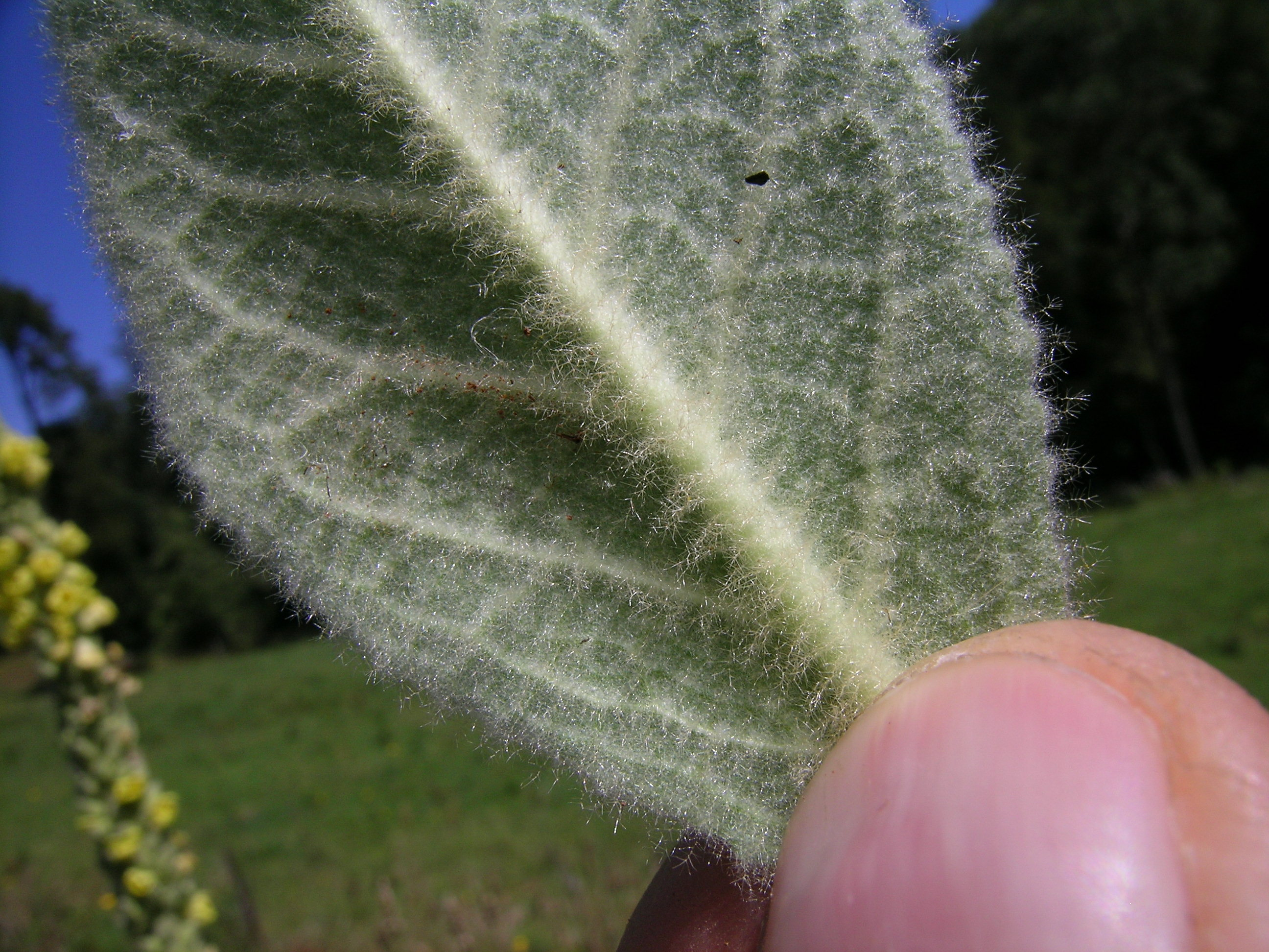 Introduced, warm season, biennial herb; initially forming a rosette of leaves which then elongate along a stout flowering stem 0.5-2 m tall. Leaves are yellowish to blue-grey and densely woolly; basal leaves are up to 50 cm long. Flowers are yellow, 1.5-3 cm across and occur in dense racemes 15-100 cm long. Usually germinates in autumn or spring and flowering is from spring to autumn of the 2nd year. Commonly found on lighter soils, near roadsides and other disturbed areas and within heavily grazed pastures. Weed that produces numerous long-lived seeds. Suspected of being poisonous, but unpalatable and not normally grazed. Management may require a combination of methods, including: pasture improvement, increased soil fertility, maintenance of ground cover by not overgrazing (especially on lighter soils), chipping and herbicides. When physically removing plants, ensure to remove as much of the taproot as possible.